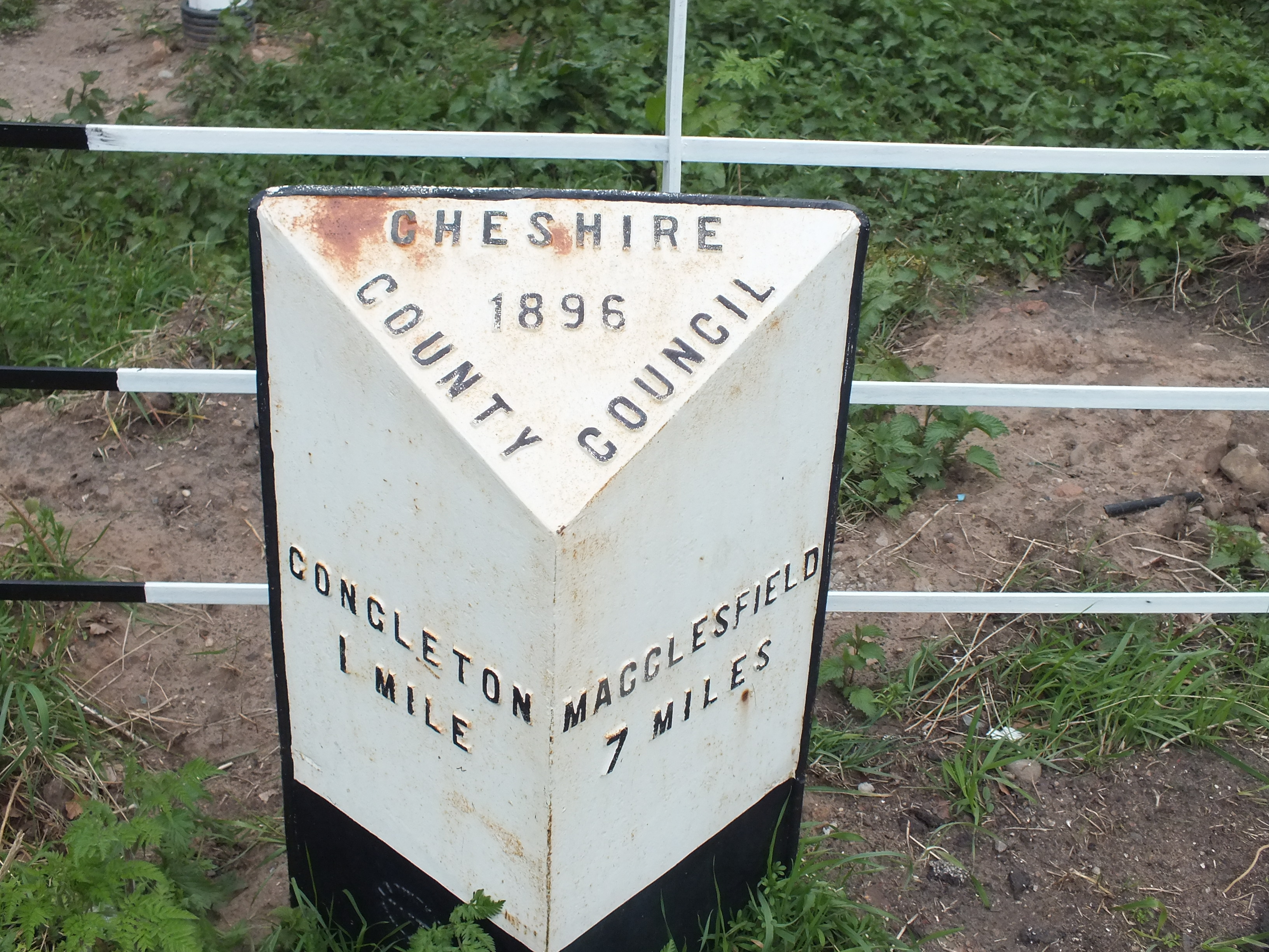 Congleton- Bear Town, East Cheshire. 1896 Milestone on A536